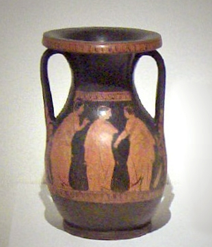 Red figure pelike; baked clay; height : 30 cm; found at Sinop; 5th - 4th century BC; Museum of Anatolian Civilizations; Ankara, Turkey